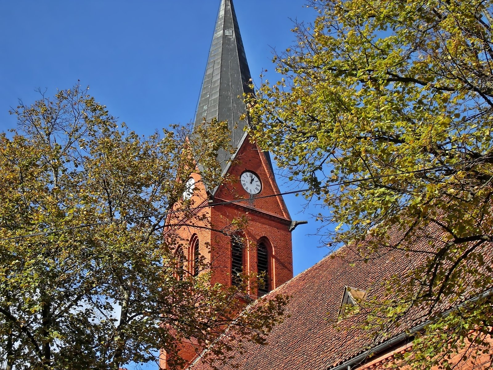 A fragment of the roof and tower of Long Street